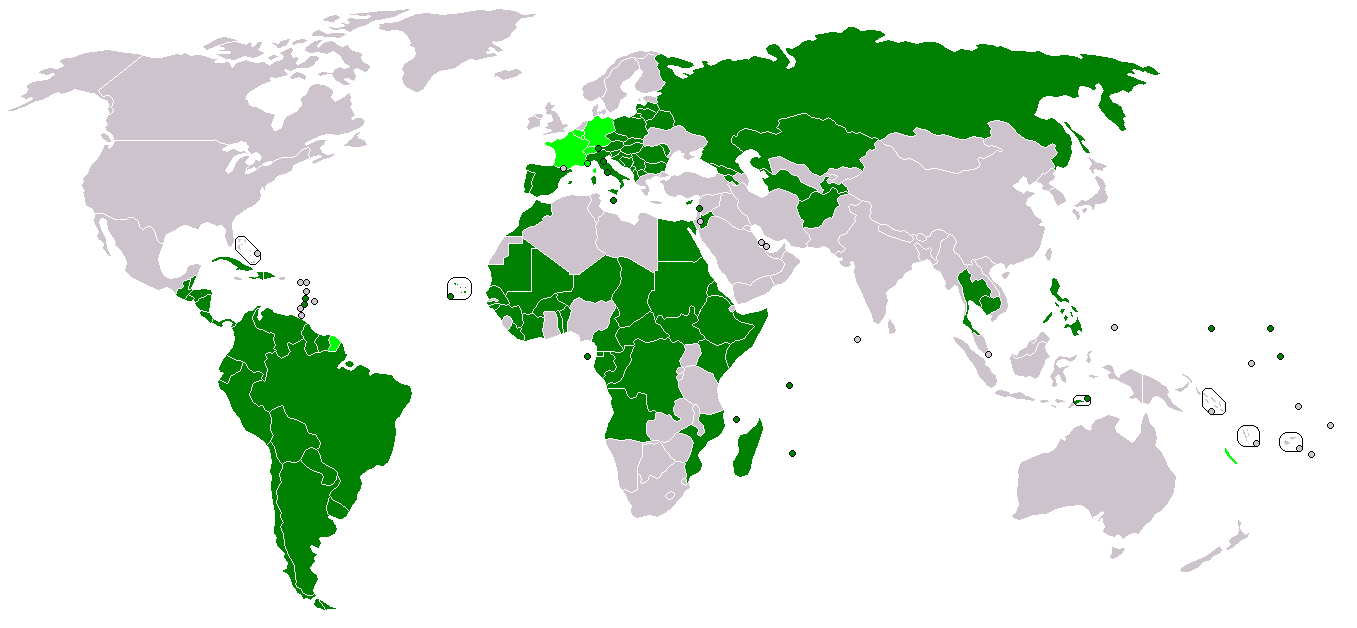 Diplomatic relations of the Sovereign Military Hospitaller Order of Saint John of Jerusalem, of Rhodes and of Malta